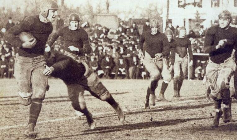 A player makes a diving tackle attempt during the 1919 Maryland – Johns Hopkins football game.